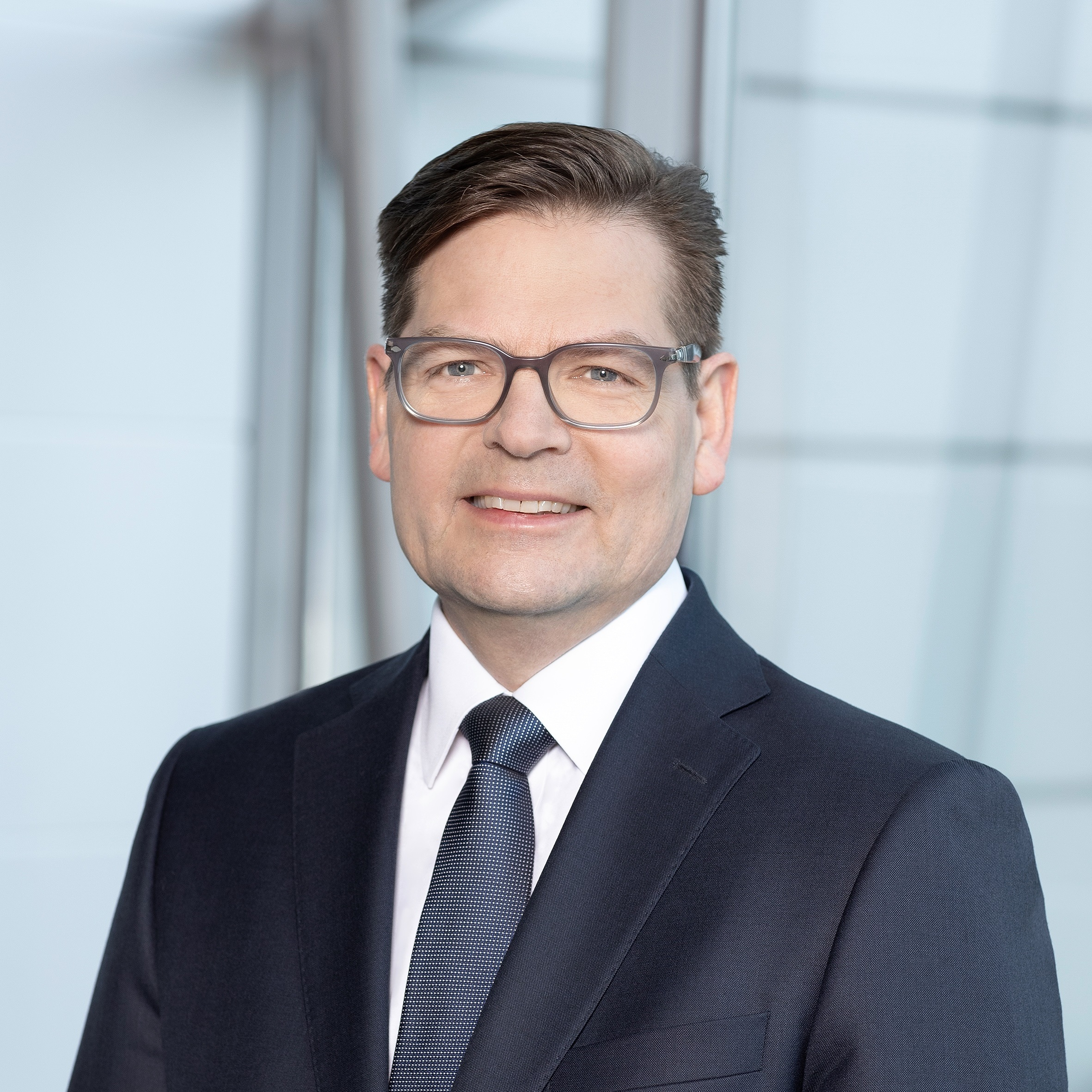 Portrait Arno Walter